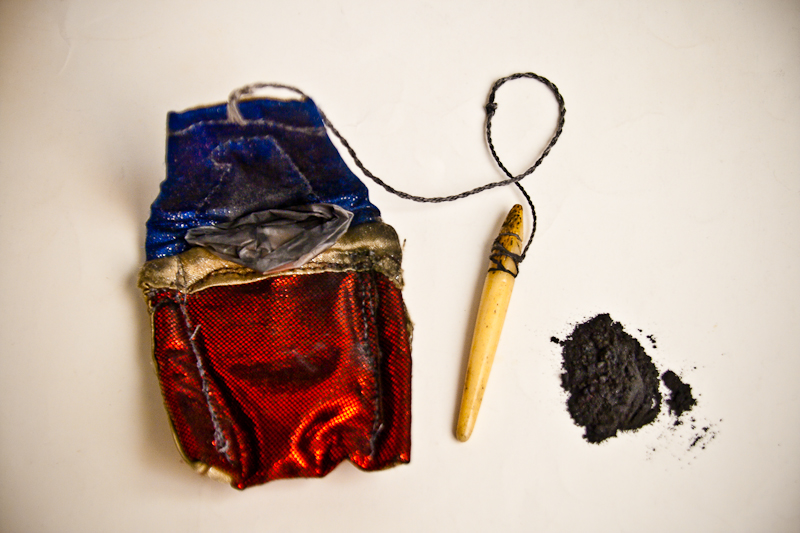 mascara